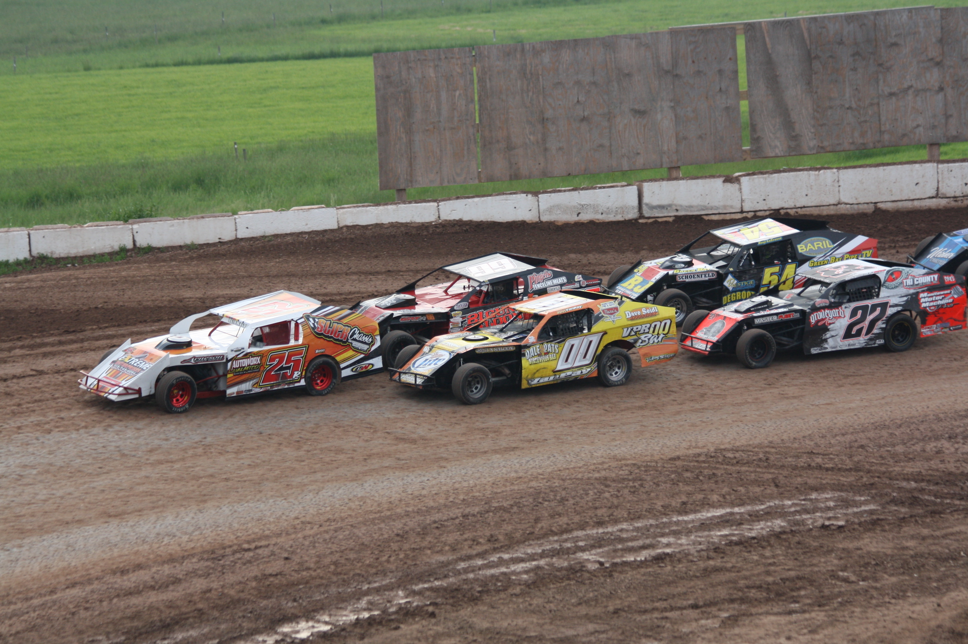 IMCA modifieds demonstrating a Delaware-style restart at 141 Speedway near Francis Creek, Wisconsin. In the method, the leader gets the front row to himself and the other cars line up two wide. Notables in this field include: 1) #54 Benji LaCrosse who won the IMCA National Modified championship in 2006 and the IMCA SuperNationals modified race in 2005 2) in front of him is #66 Jared Siefert who won the 2007 IMCA National Modified championship.